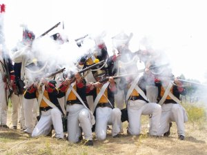 2006 reenactment of the Fourth Infantry Regiment of Pułtusk